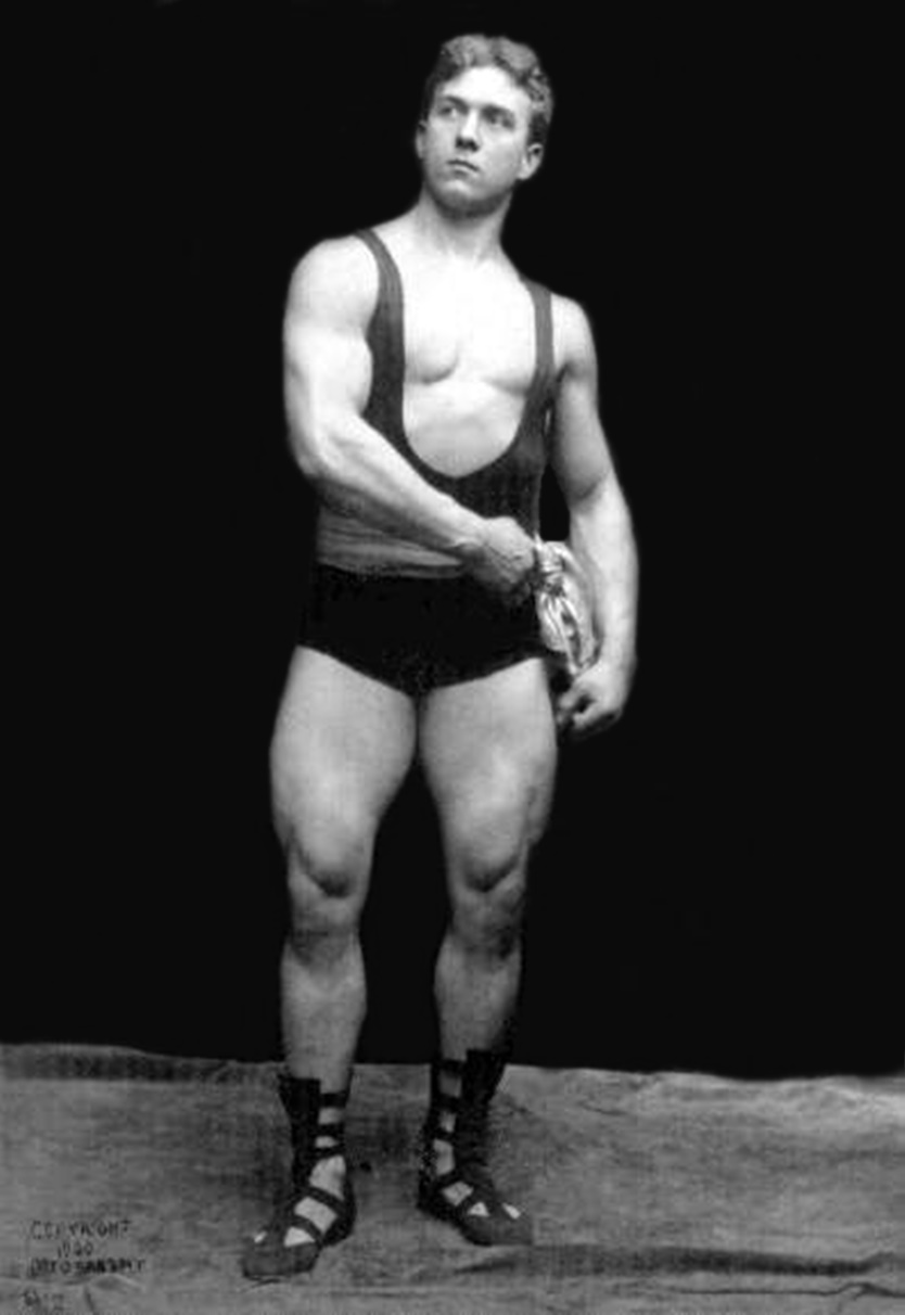 Napoleon Sarony (1821-1896), Portrait of strongman Lionel Strongfort (né Max Unger) in 1900. : Clearly either wrong date or wrong photographer; Photographers seldom take pictures years after their death.